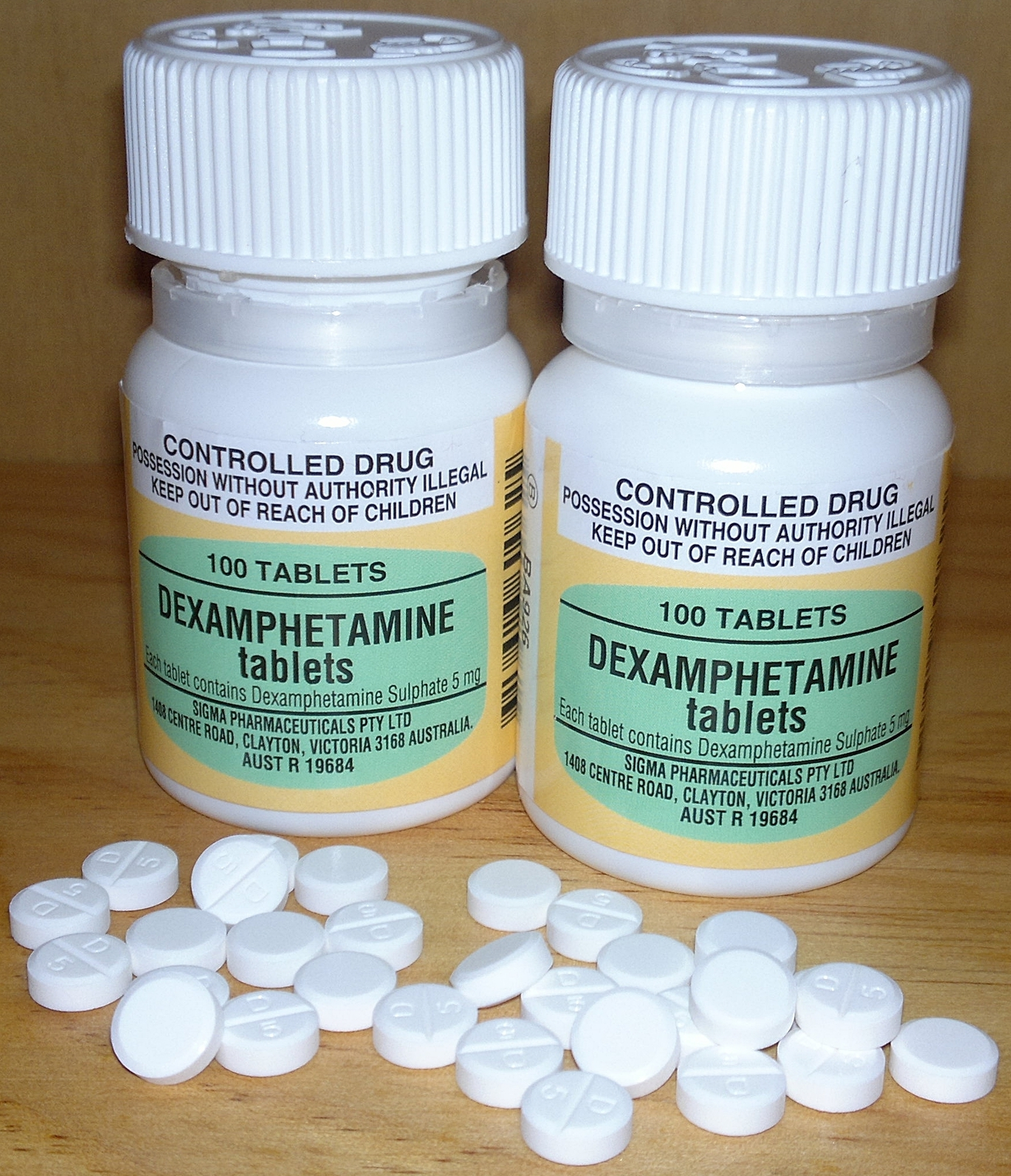 Dextroamphetamine